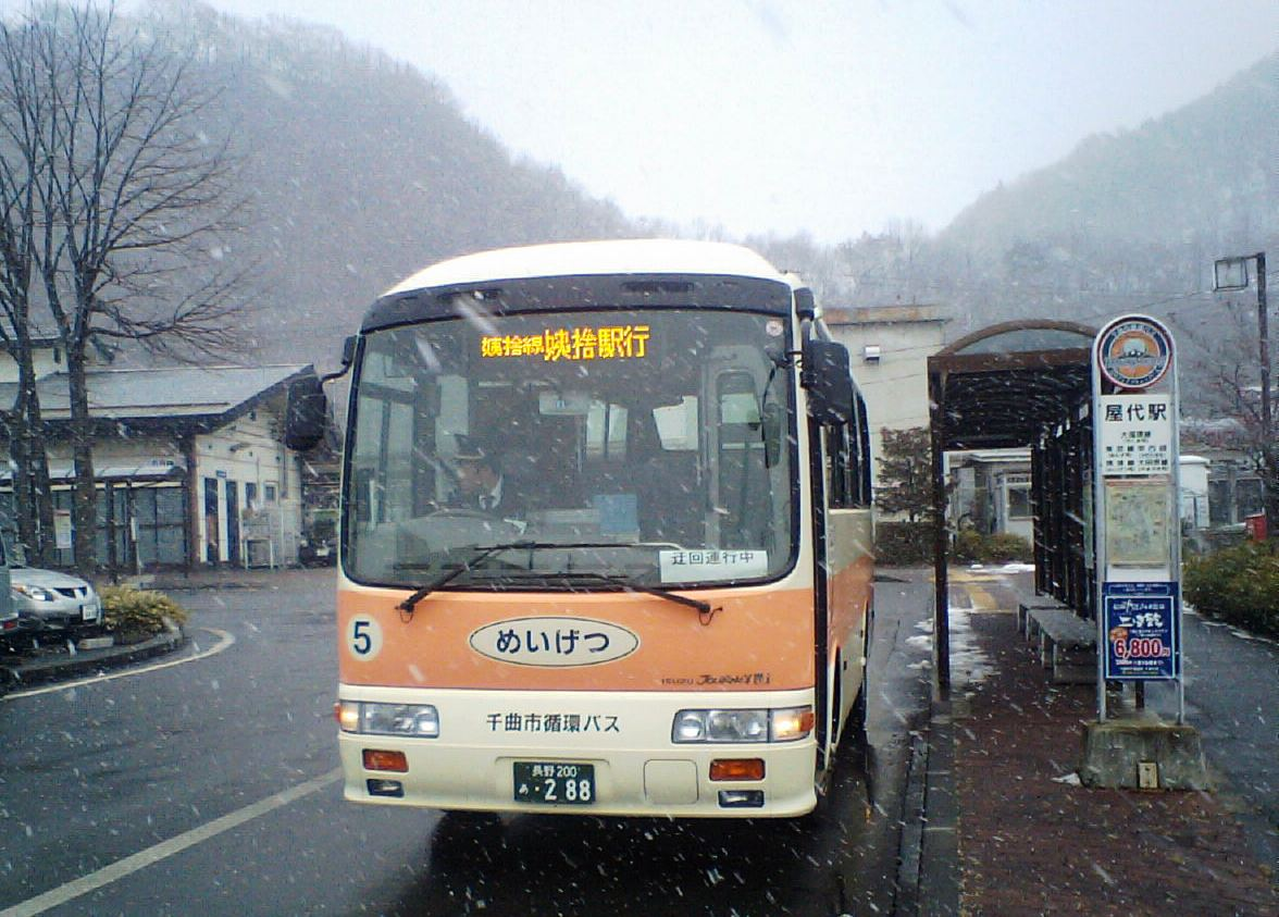 Chikuma City Bus "Mei-getsu",Japan, taken in front of Yashiro Sta,2012-01-03.